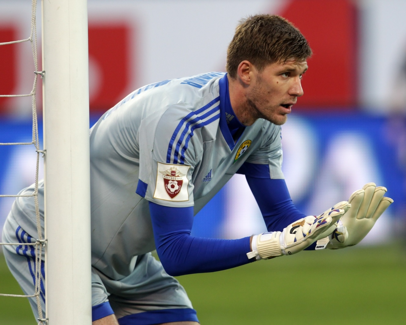 Dmitri Stajila playing for FC Kuban Krasnodar in a game against FC Zenit Saint Petersburg on 28 April 2016.